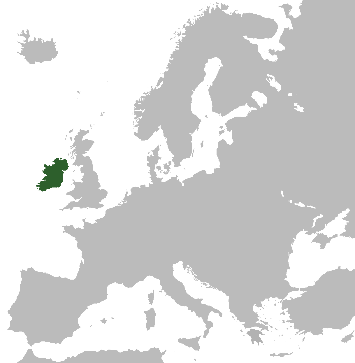 The Kingdom of Ireland in 1801.